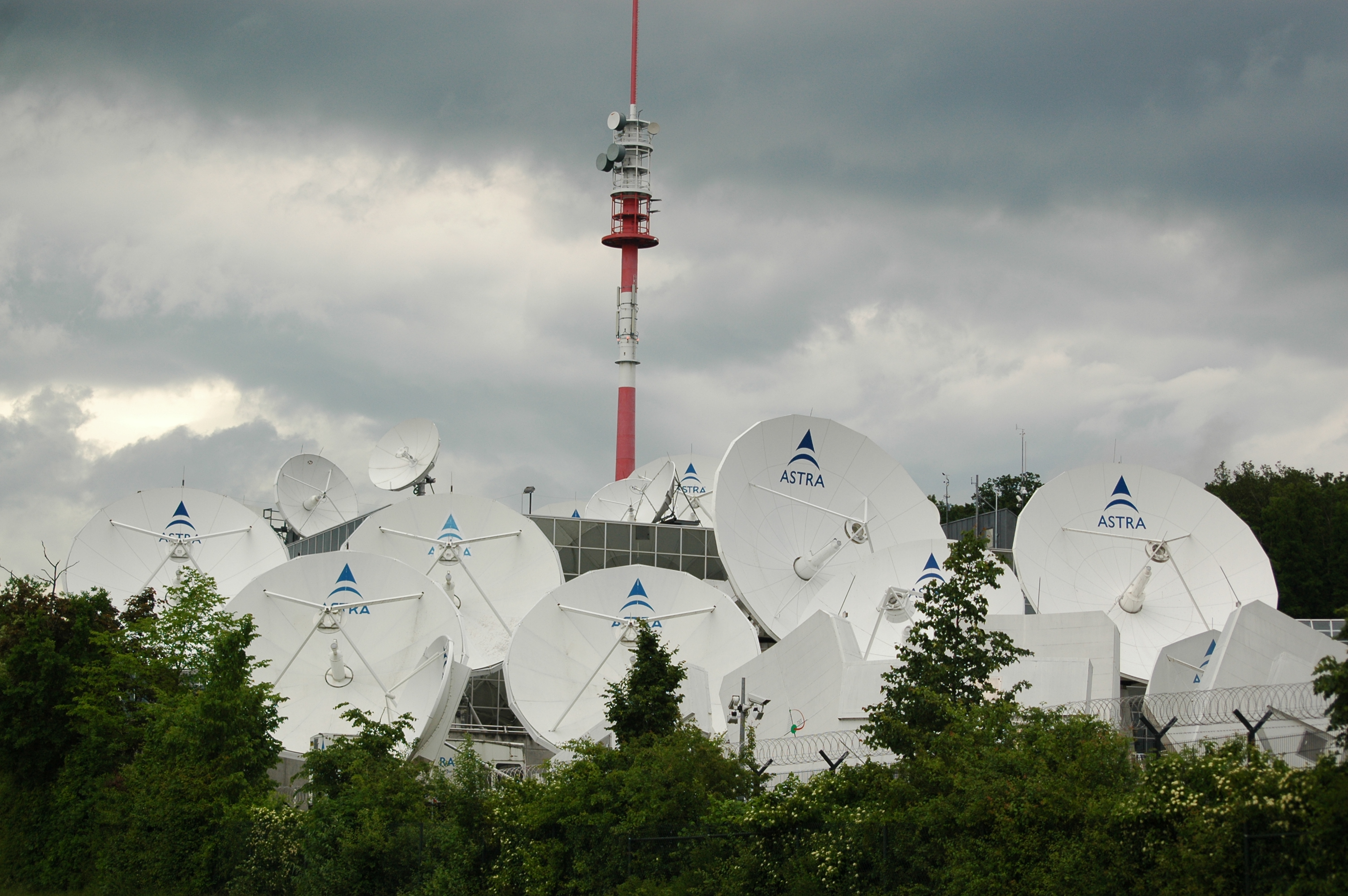 Satellite Control Facilities in Betzdorf/Luxembourg, owned and operated by SES.